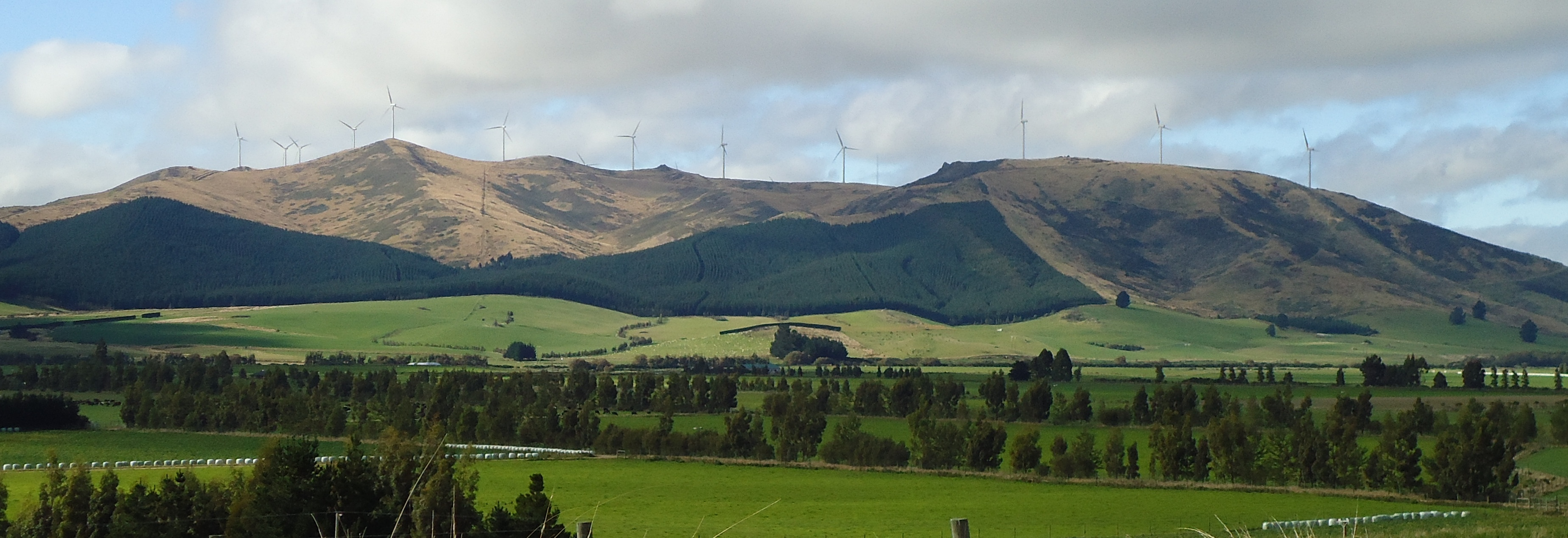 White Hill Wind Farm, Northern Southland, as viewed from the information kiosk on Cemetery Road, Mossburn